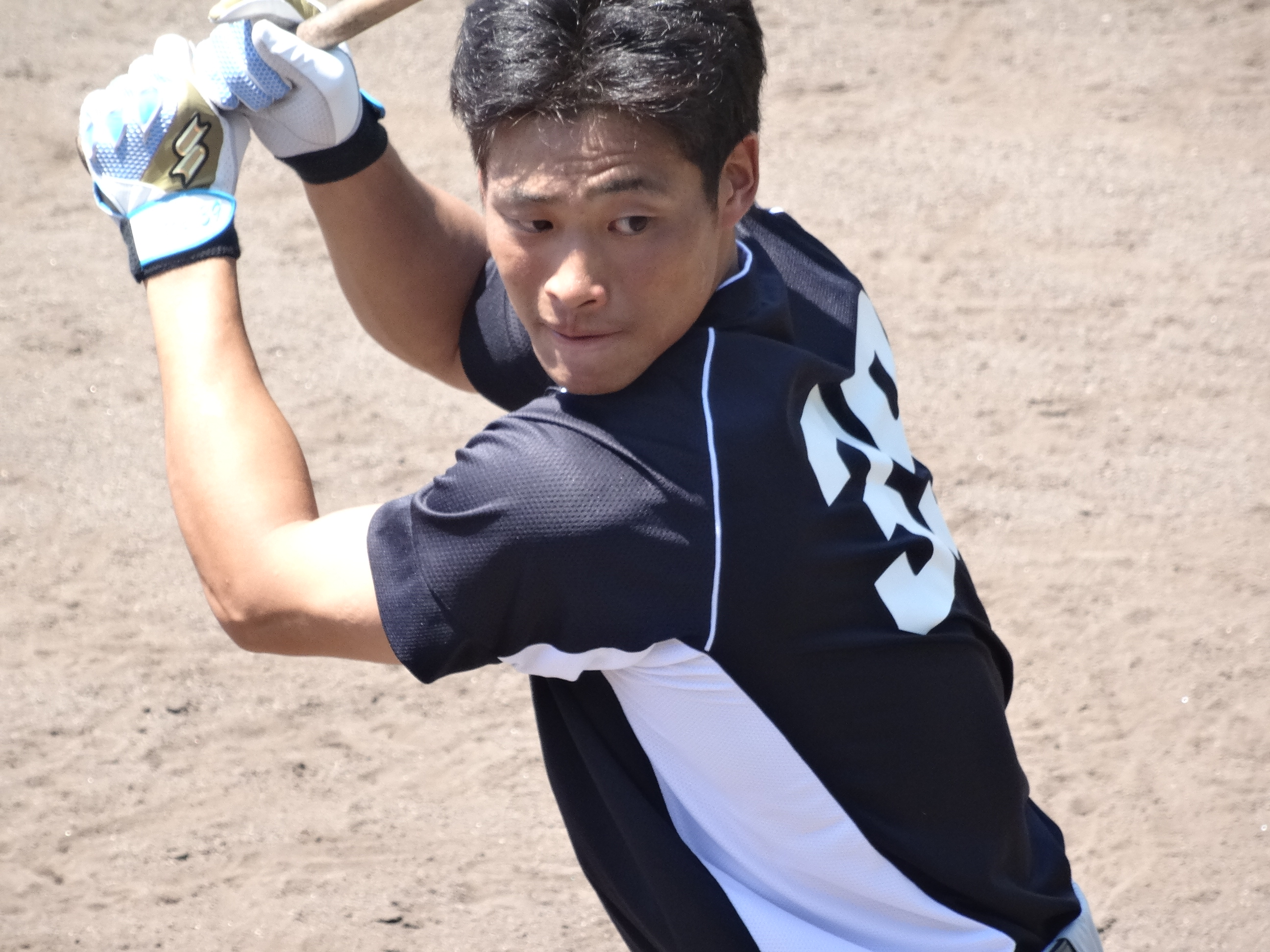 Takuma Kato, catcher of the Chunichi Dragons, at Hanshin Naruohama Baseball Ground